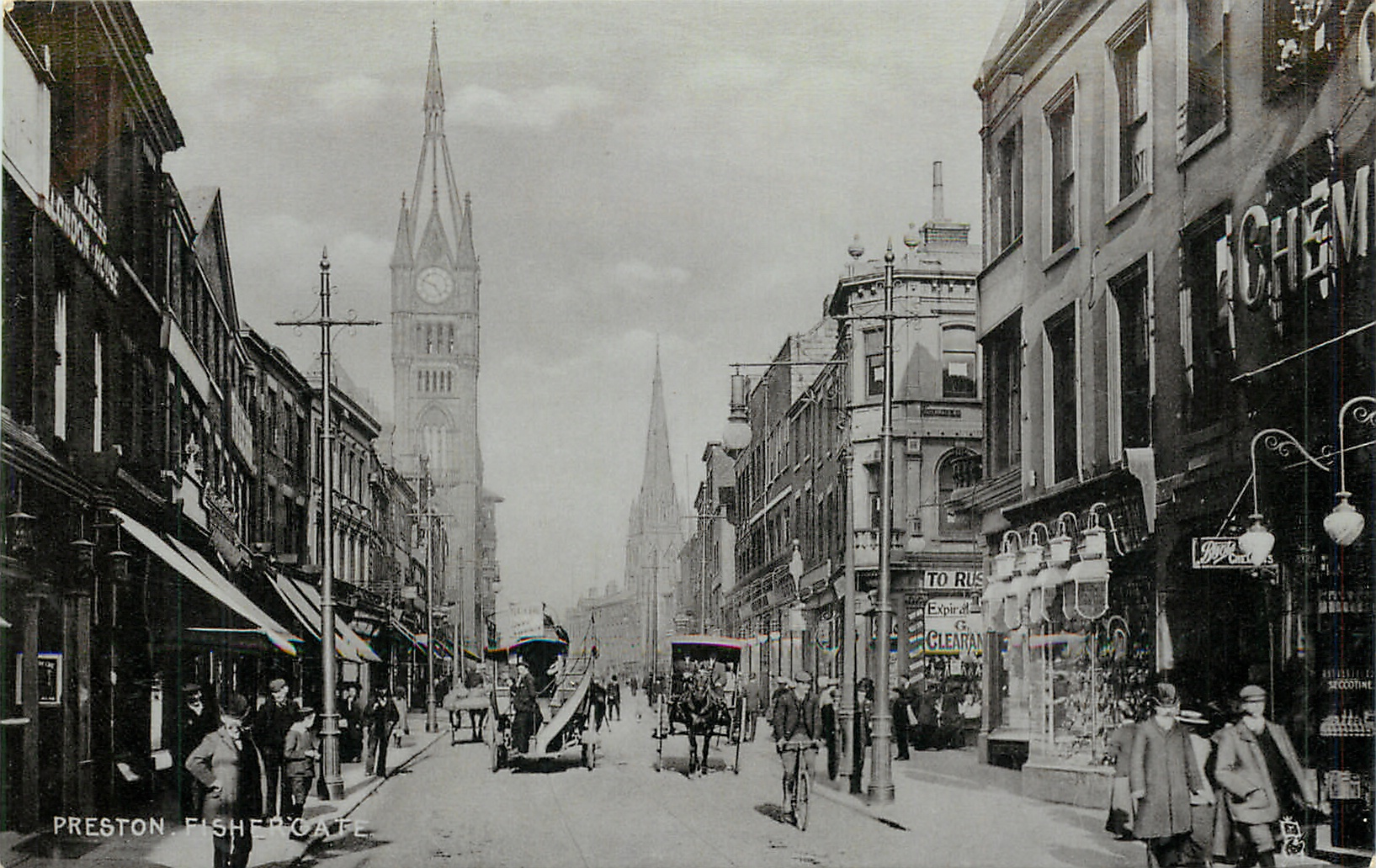 Fishergate, the main shopping street in Preston, Lancashire, England, pictured in a postcard published in 1904. The clock tower is George Gilbert Scott's Town Hall, which was destroyed by fire in 1947. The spire in the distance is St John's parish church.